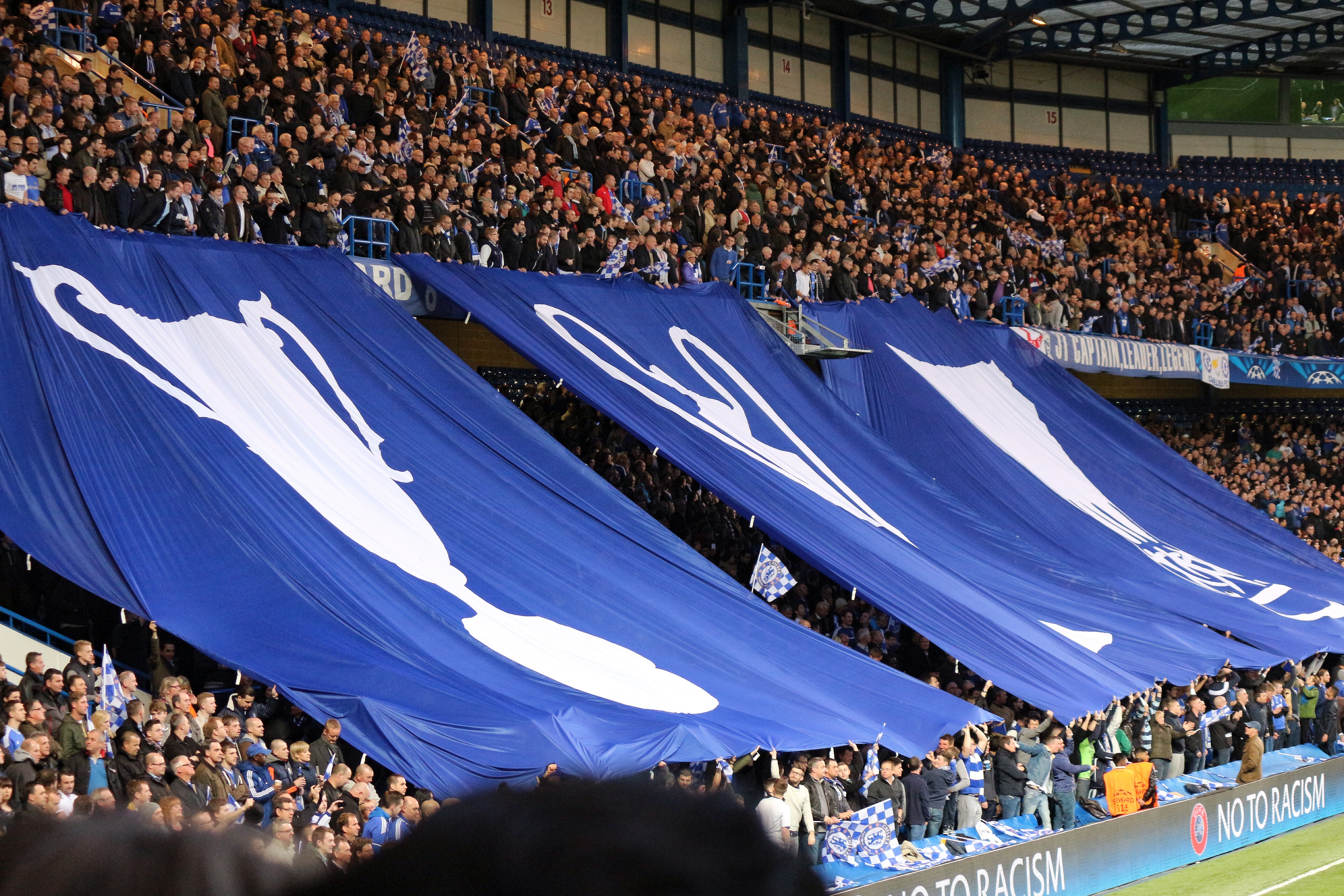 Chelsea 2 PSG 0